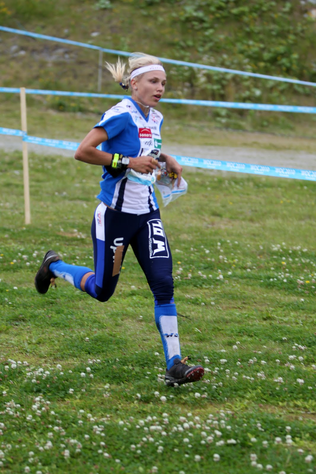 Minna Kauppi at World Orienteering Championships 2010 in Trondheim, Norway